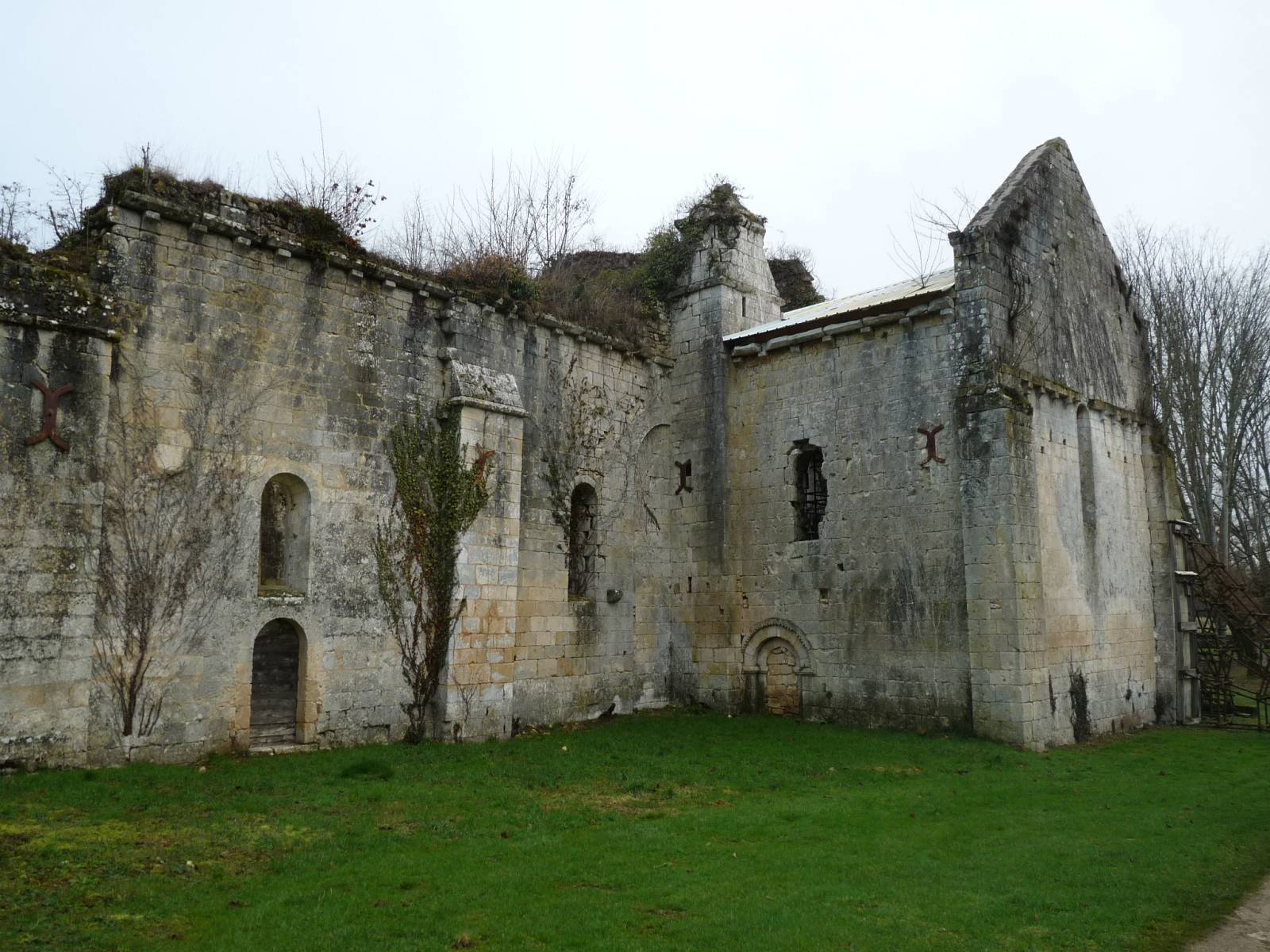 remains of the abbey of Grosbot, Charras, Charente, SW France